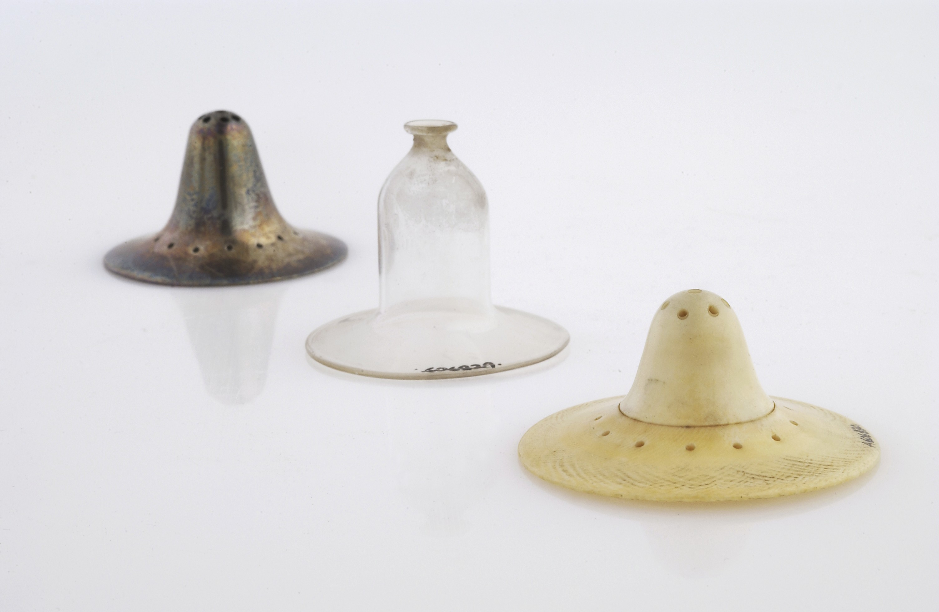 Sterling silver, ivory and glass nipple-shield. The silver one is hallmarked with the maker'd initials and George III's head and has been dated to 1786-1821 Wellcome Images Keywords: Baby; Motherhood; Protection; Feeding; Breast Feeding